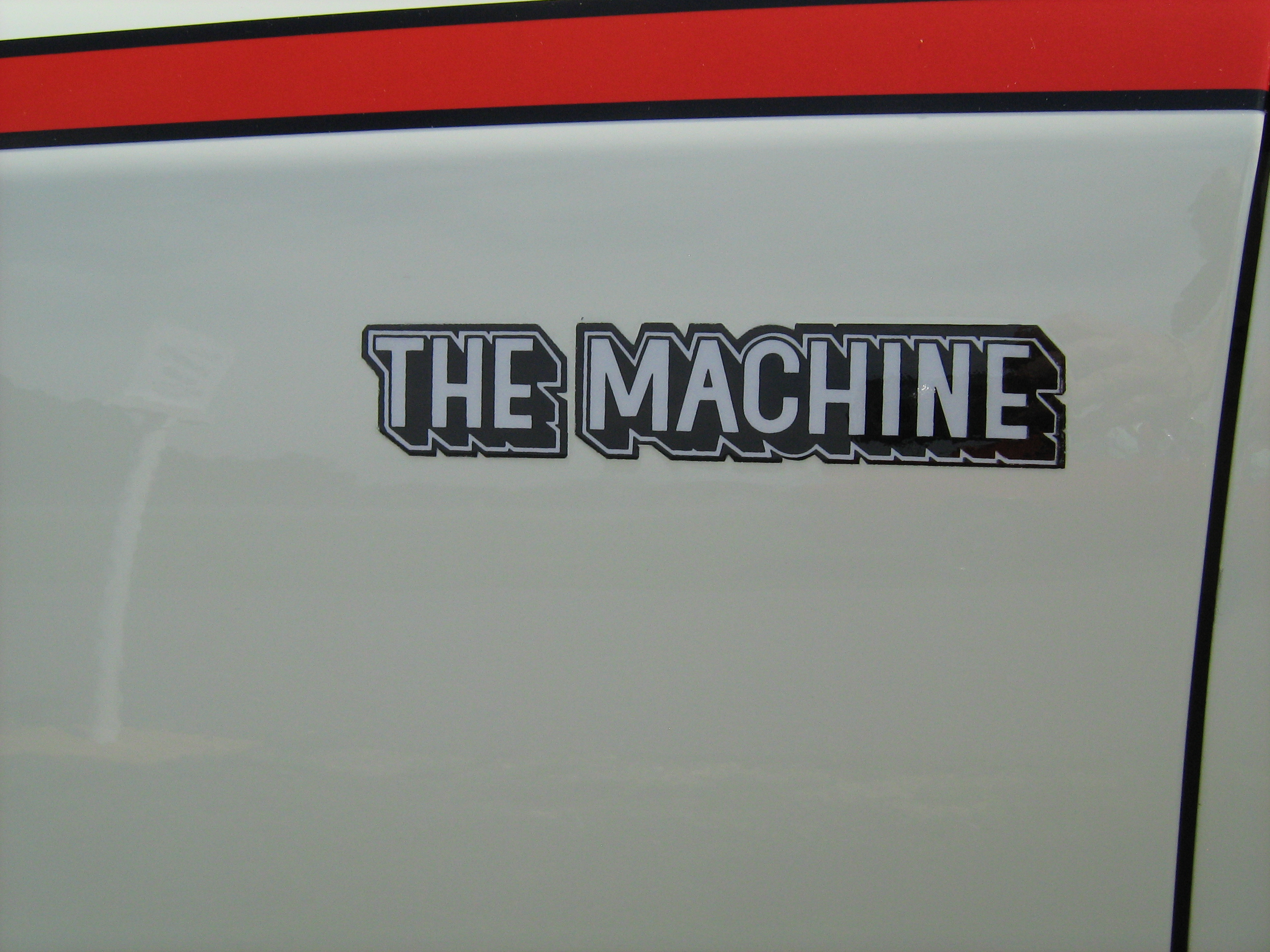 The model identification on a 1970 "The Machine" - a special model of the AMC Rebel two-door hardtop by American Motors Corporation (AMC). This is a factory built Muscle Car with AMC's 390 cu in (6.4 L) V8 engine with 340 hp (254 kW) and 430 pound-feet of torque @ 3600 rpm. This is one of the original production versions in white with the "glow in the dark" red-white-blue color stripes and standard hood scoop and rocker panels finished in "Electric Blue." Picture taken at the AMC day at the Cecil County Dragstrip in Maryland.